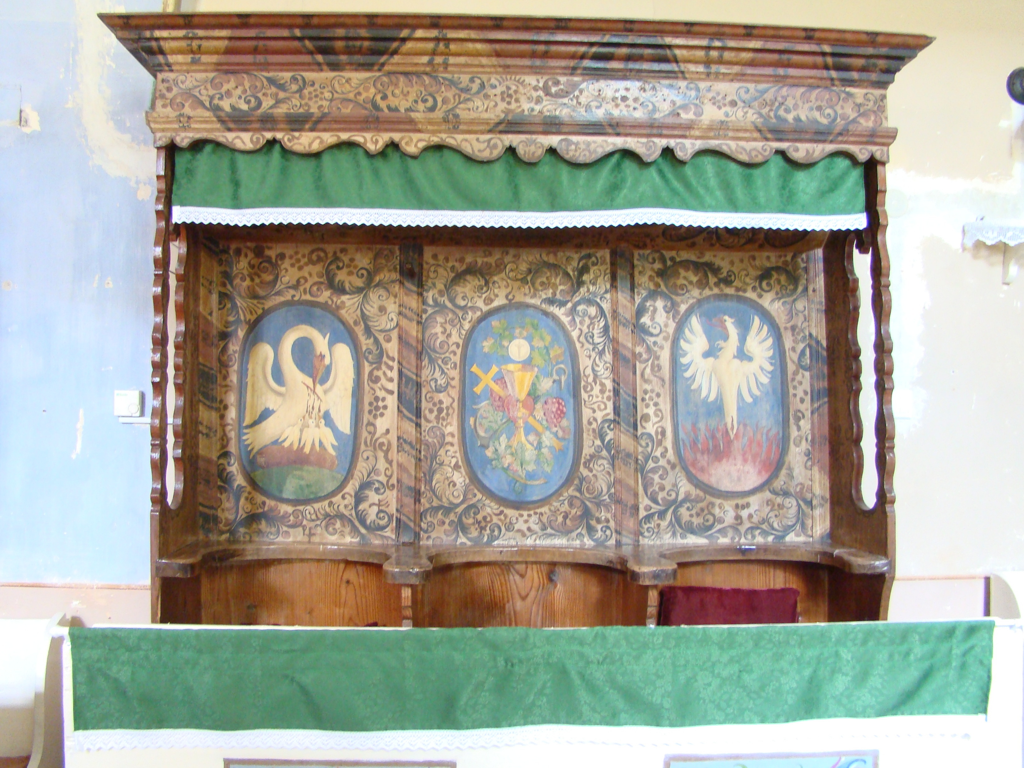 Lutheran church in Satu Nou, Brașov County, Romania